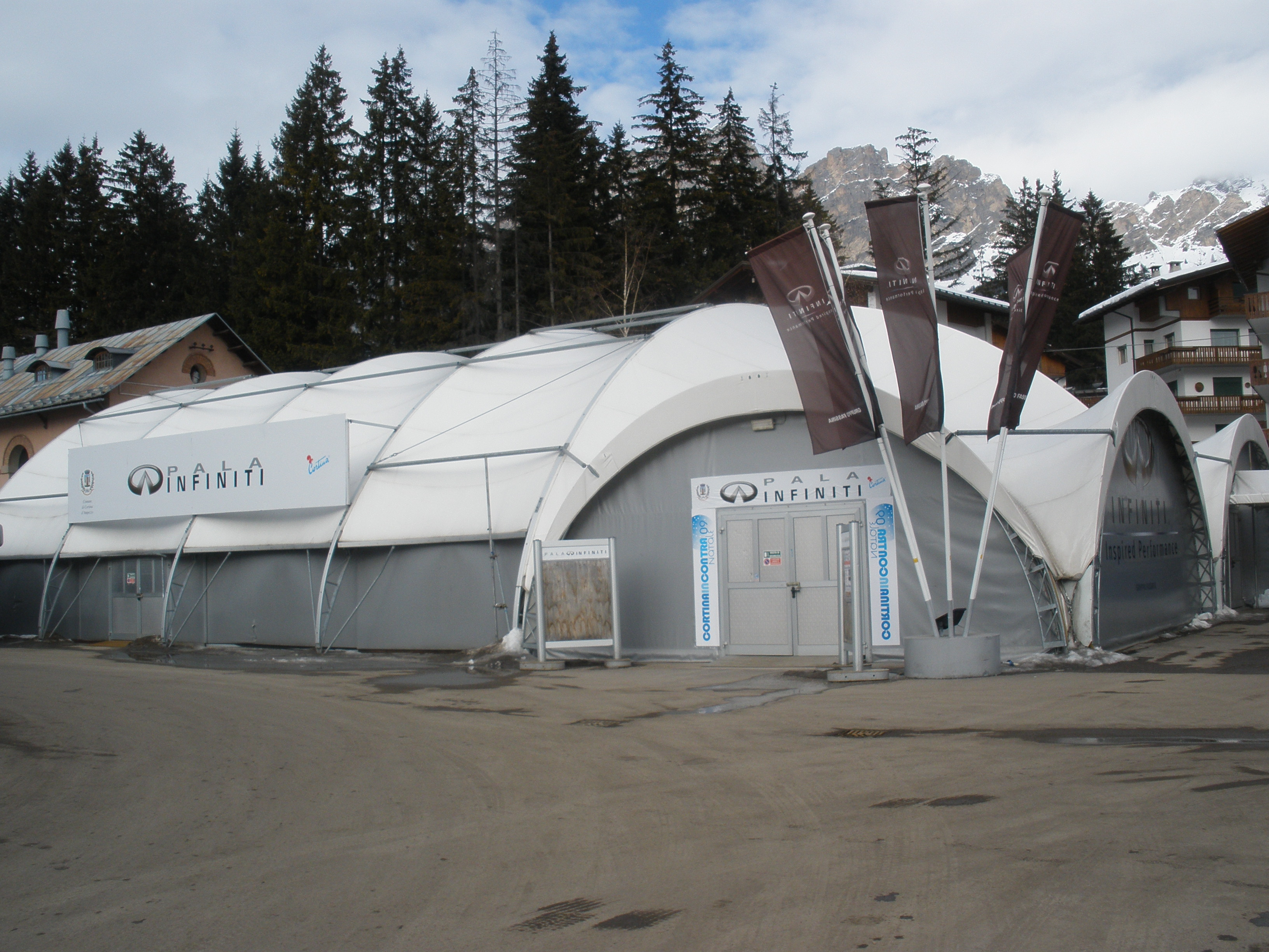 The PalaInfiniti in Cortina d'Ampezzo, Italy.